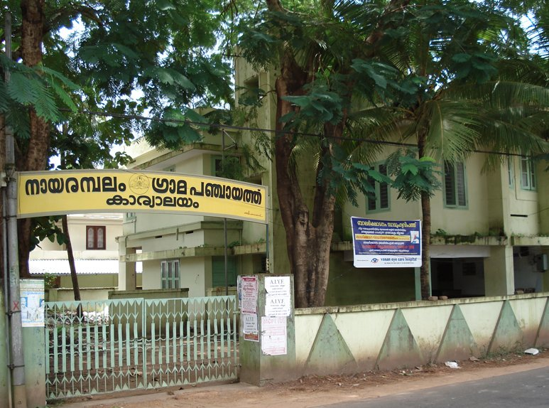 Shot with my Sony W30 Digital Camera. Panchayath Office, Nayarambalam